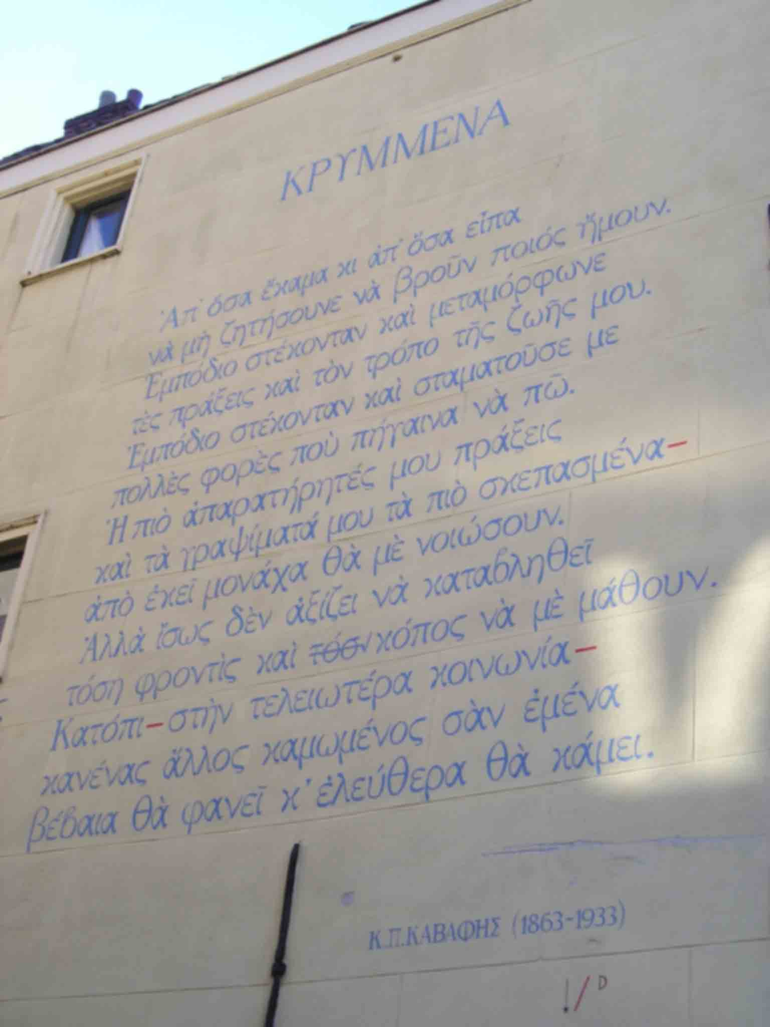 Photo of an poem by the Greek poet Constantine P. Cavafy painted on a building in Leiden, the Netherlands.